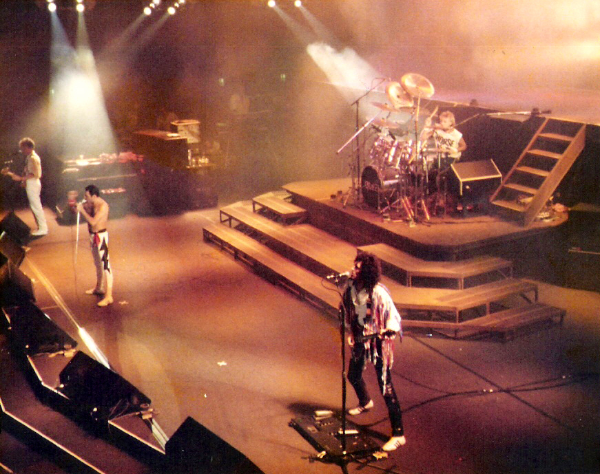 Queen live in Frankfurt, Germany